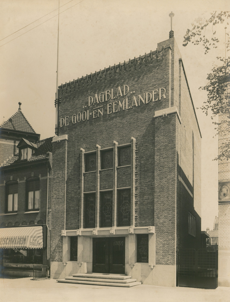 J. van Laren. Kantoorgebouw dagblad ‘De Gooi- en Eemlander’. Hilversum, 1928. Collectie NAi, TENT o519